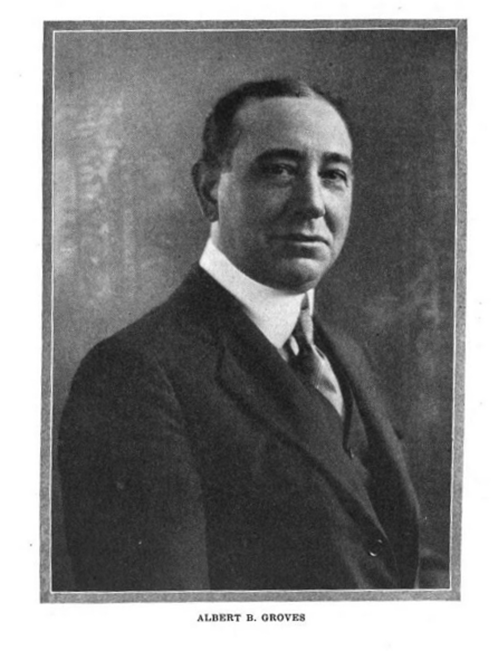 Image published in Centennial History of Missouri (the Center State) One Hundred Years in the Union, 1820-1921, Volume 5, page 541